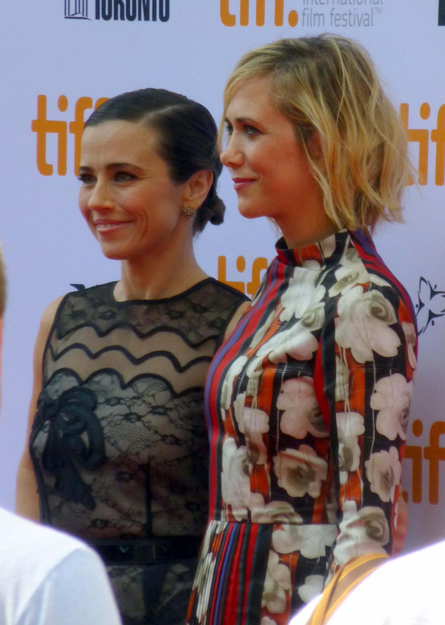 Linda Cardellini, Kristen Wiig at the premiere of Welcome to Me, Toronto Film Festival 2014